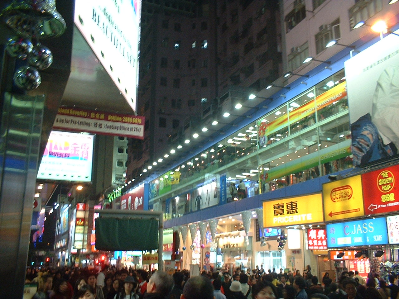 Large crowds can be seen on Causeway Bay of Hong Kong.